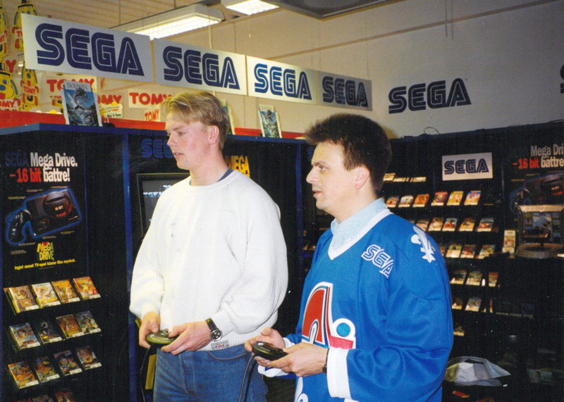 Mats Sundin and Stefan Lampinen playing ice hockey video games on the Sega Mega Drive at Brio's office in 1993.